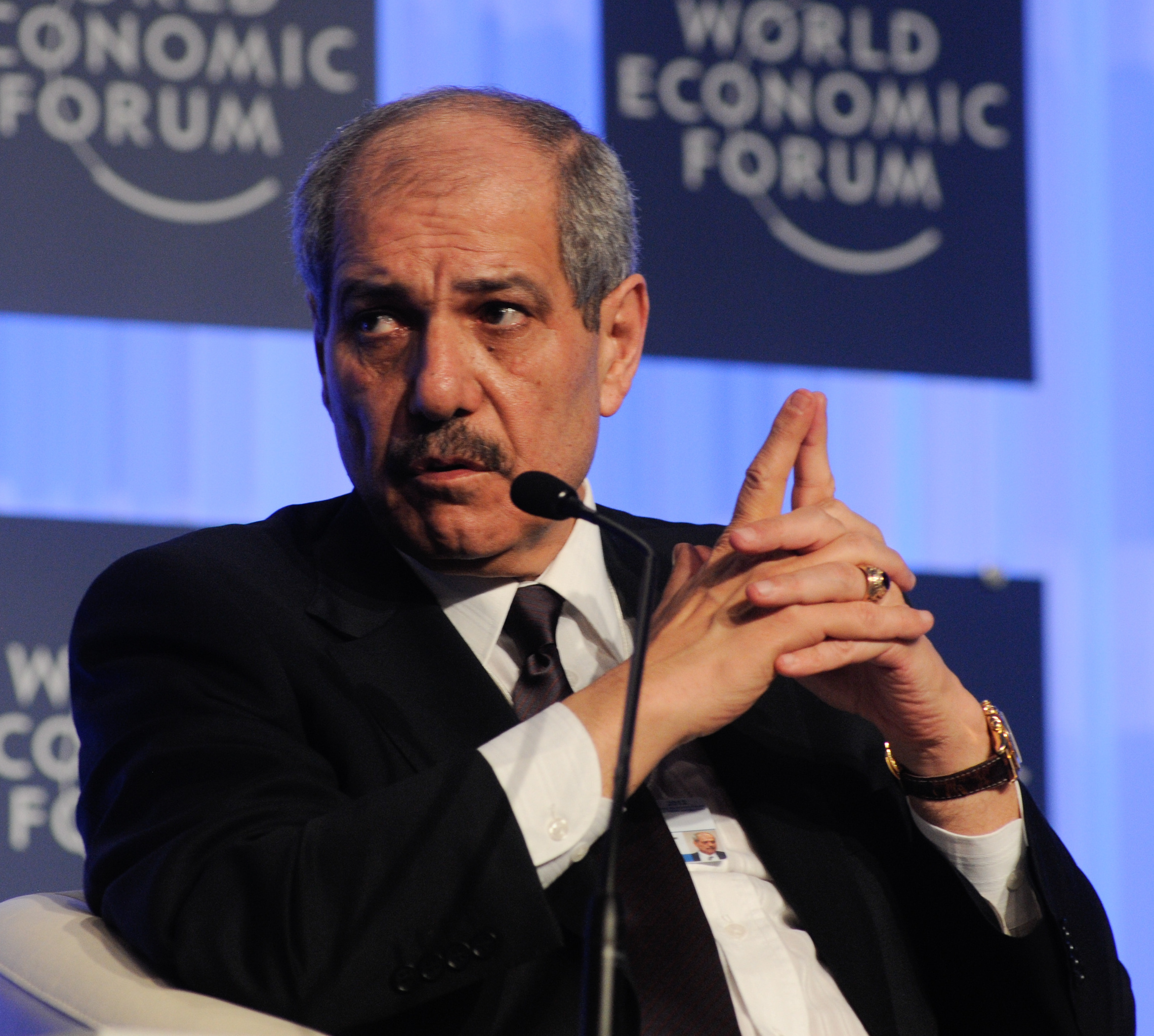 ISTANBUL, TURKEY, 5 June 2012 - Fayez A. Tarawneh, Prime Minister and Minister of Defence of the Hashemite Kingdom of Jordan, speaks at the World Economic Forum on the Middle East, North Africa and Eurasia in Istanbul, 4-6 June 2012. Copyright World Economic Forum ( by Norbert Schiller